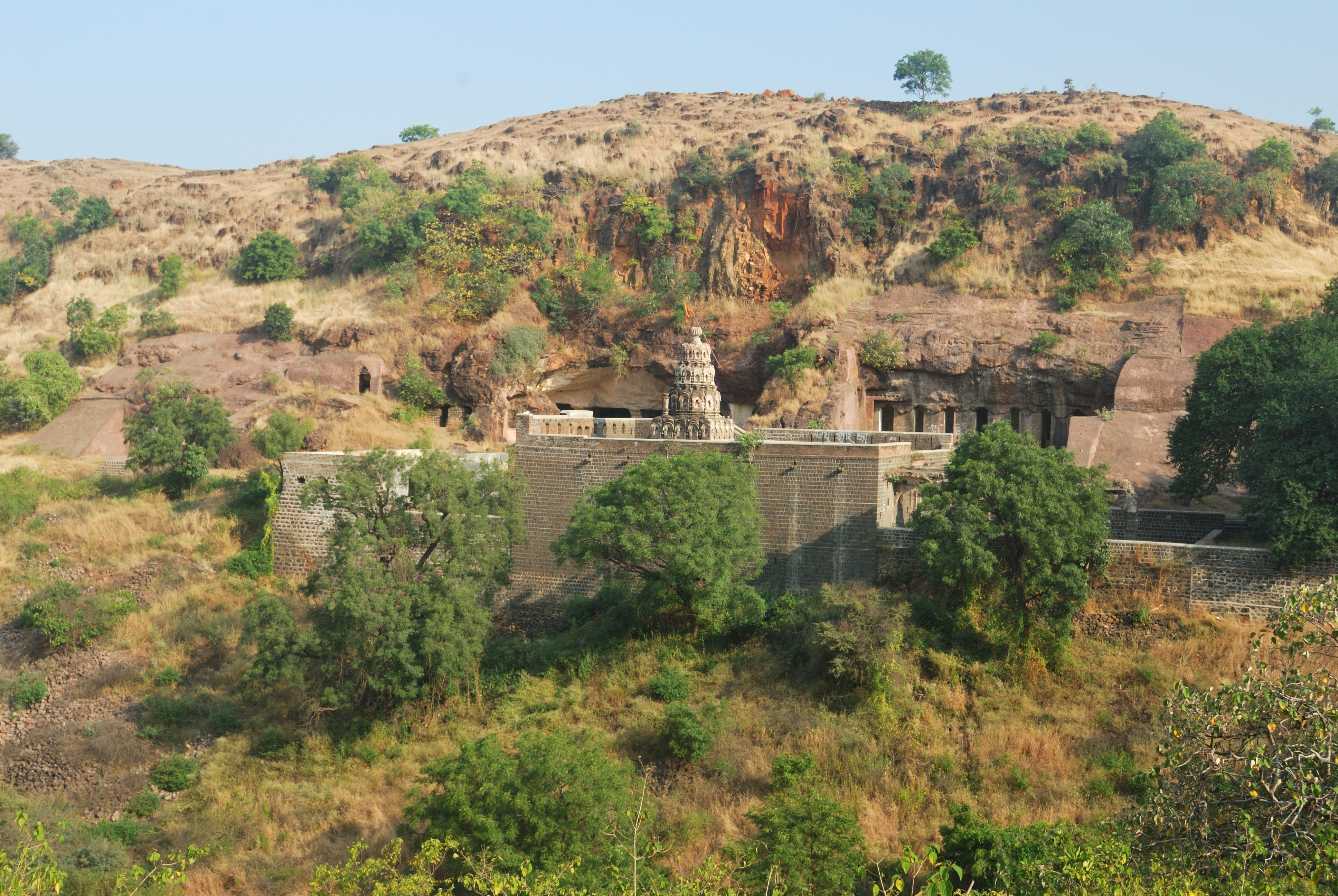 Dharashiva Leni: Cave temples west of Osmanabad, Maharashtra, India